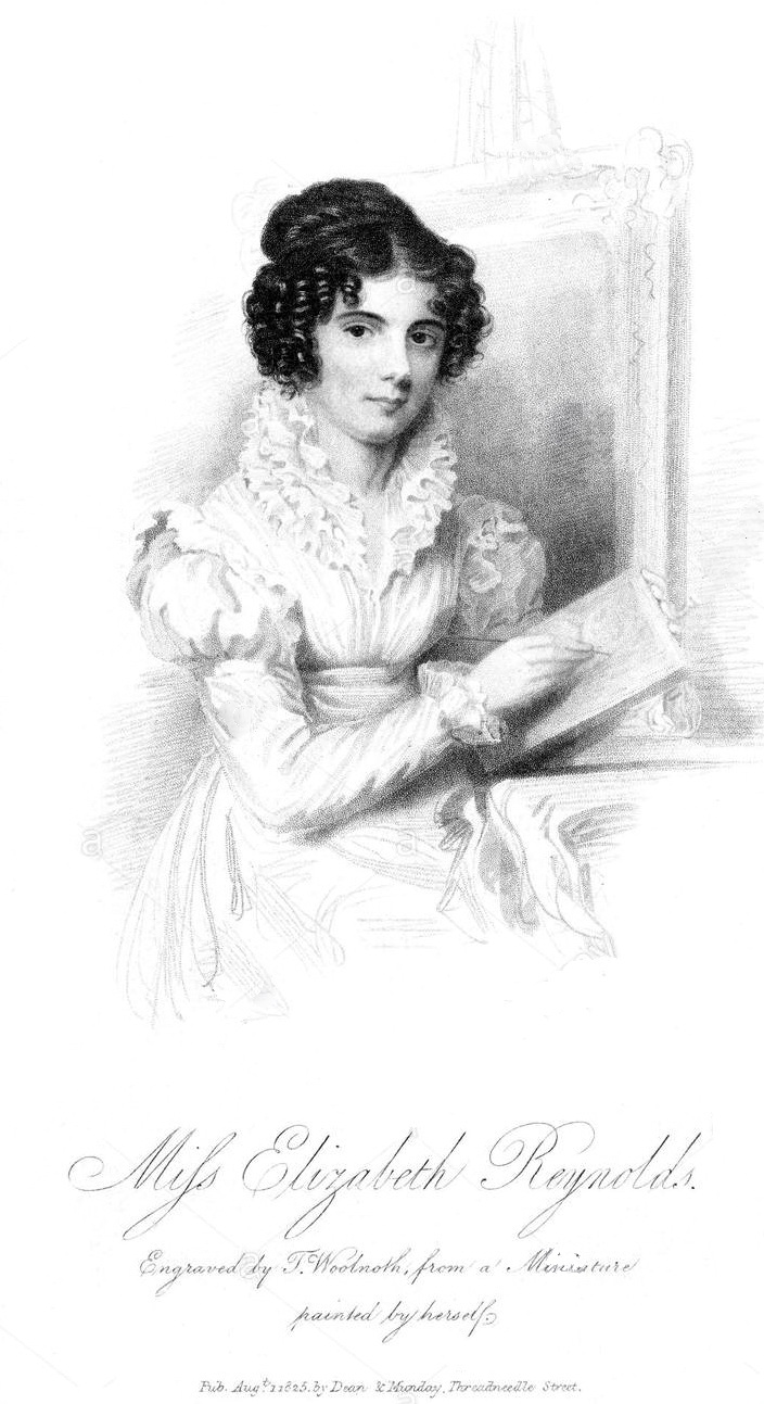 Elizabeth Walker (1800–1876) selfportrait